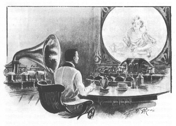 An illustration from Jules Verne's short story "La Journée d’un journaliste américain en 2889" (In the Year 2889) drawn by George Roux.